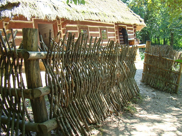 A wooden fence at Sanok-Skansen